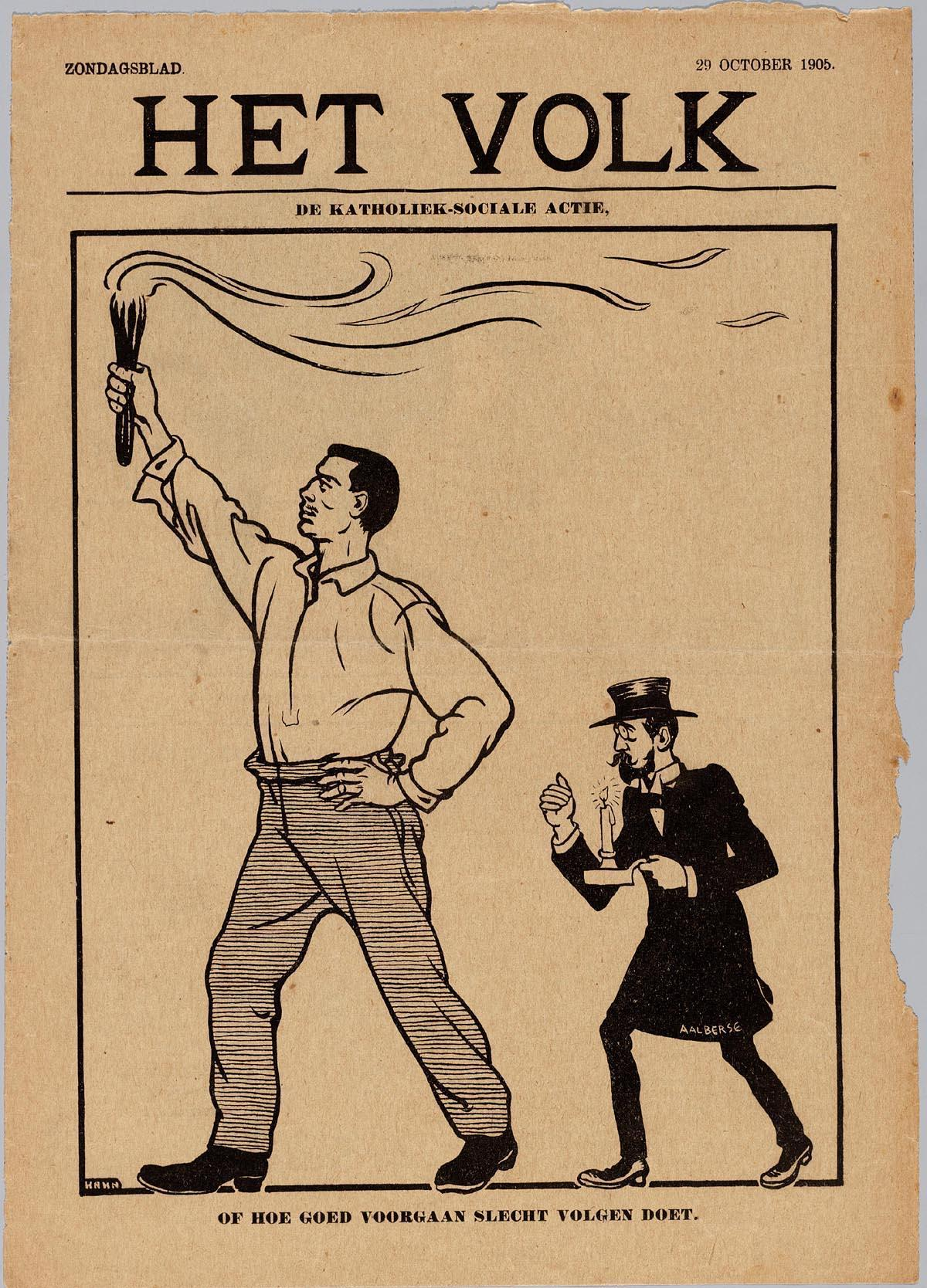 drawing by Albert Hahn (1877-1918), published 1905-10-29 as cover of Het Volk (the people), Dutch socialist newspaper. drawing depicts the leader of “Katholiek-sociale actie” (roman catholic social action) Piet Aalberse (1871-1948) on the right. Original printed size 31 x 22 cm.